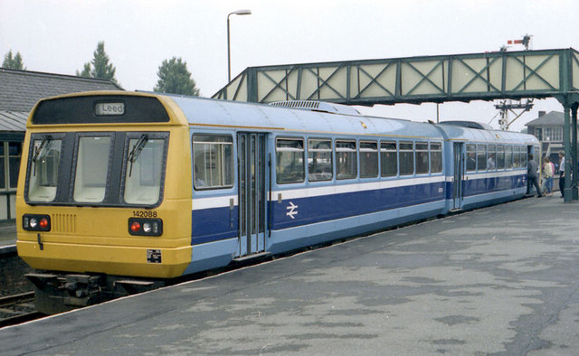 Castleford railway station A local train to Leeds at Castleford Railway station. The double-folding doors have since been replaced with more modern inward opening doors used on the Class 143 and Class 144 units, which are more reliable.